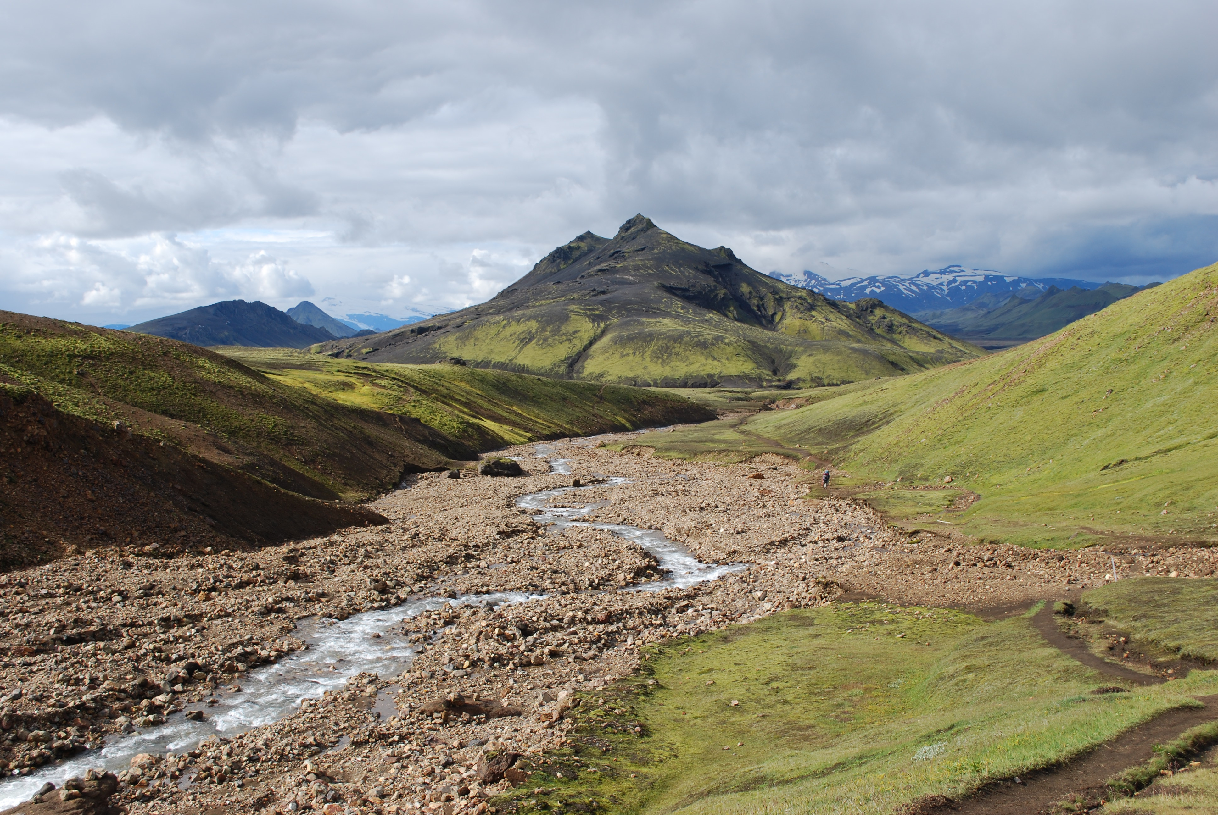 Landscape as seen from Laugavegur hiking trail, Iceland. Grashagakvisl River in the front.